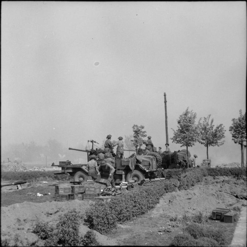 The British Army in North-west Europe 1944-45 Lorry-mounted 40mm Bofors anti-aircraft guns in action against German positions in Bremen.